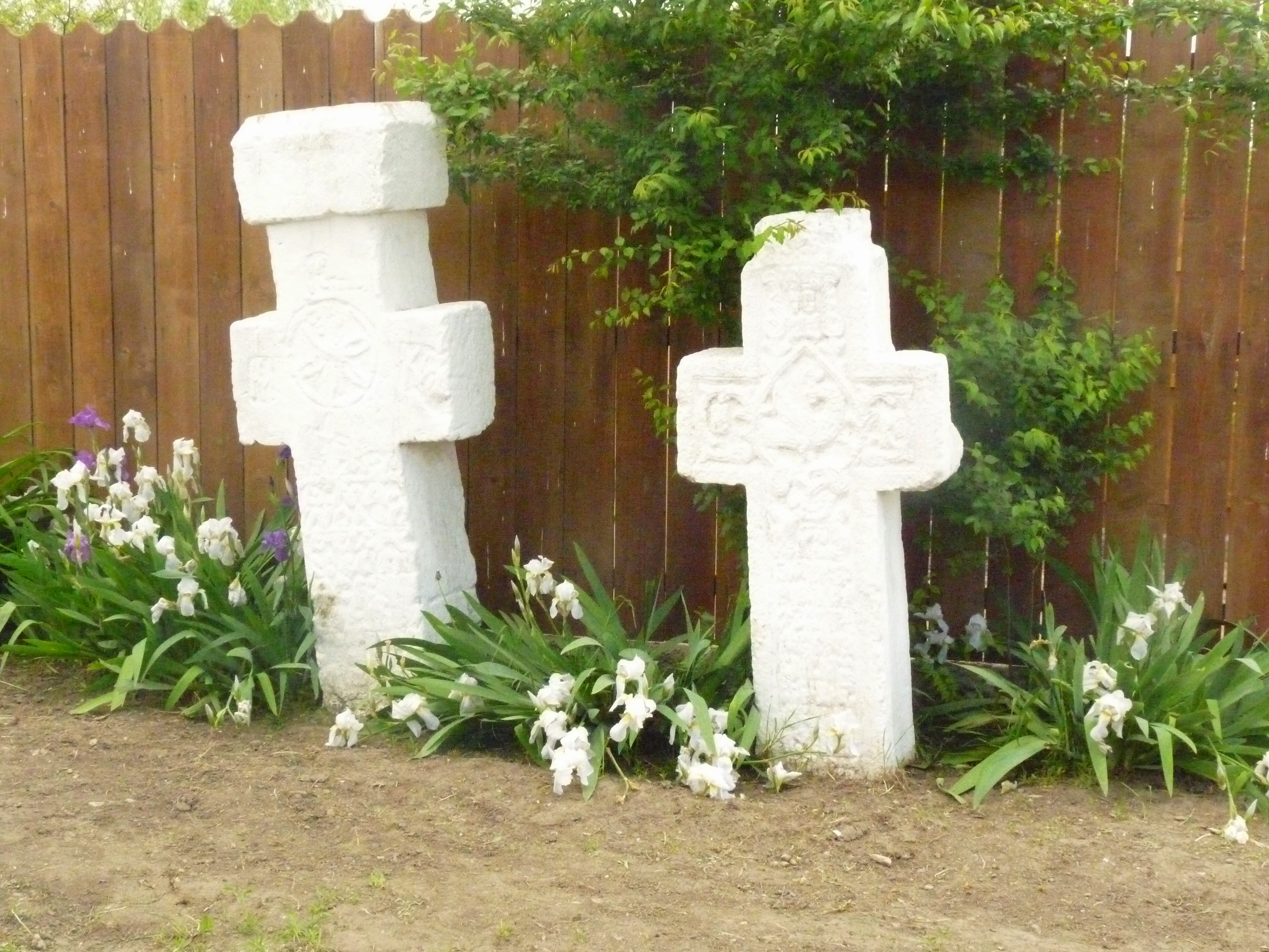 Stone crosses in Mizil, Prahova County, RomaniaRomână: Cruci de piatră în Mizil, județul Prahova, România